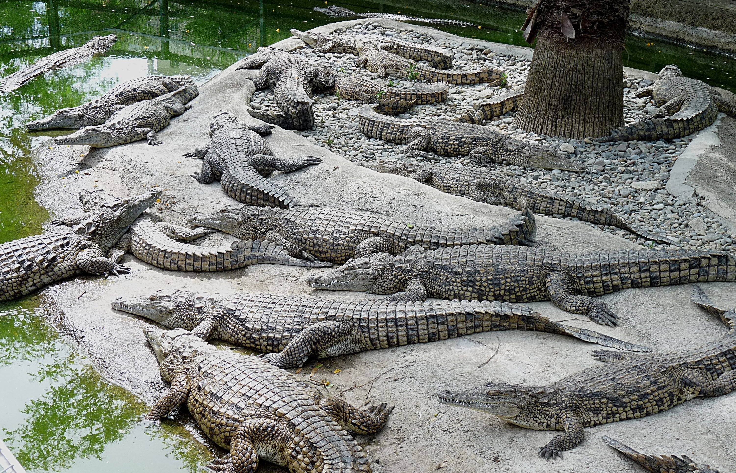 crocodile farm